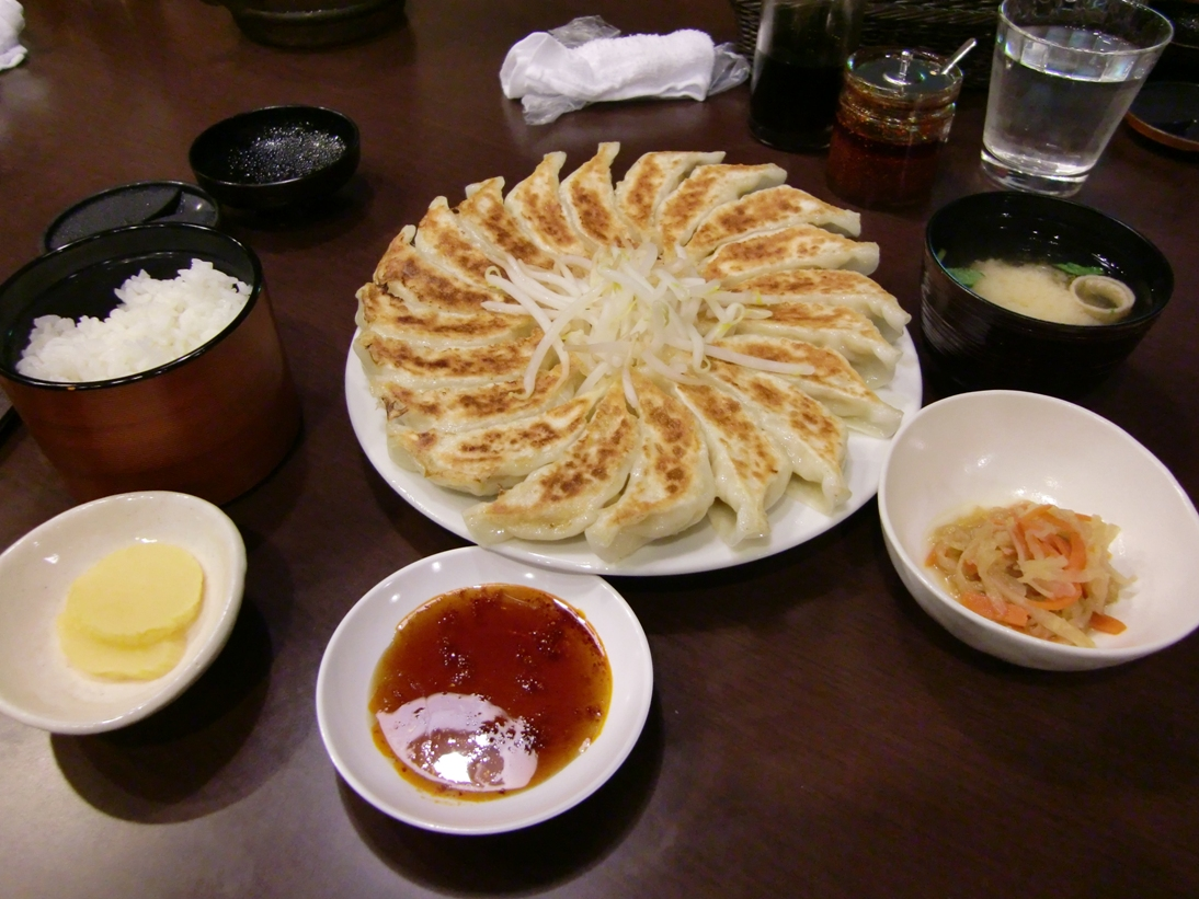 Hamamatsu gyoza, Jiaozi in Hamamatsu Japan